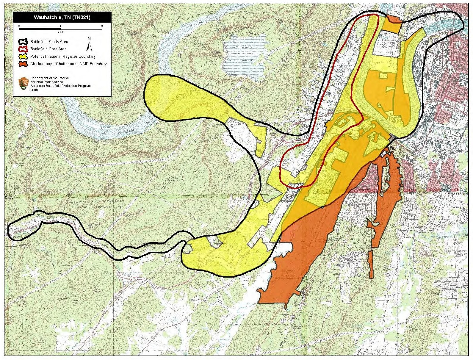 Map of battlefield core and study areas. The original Study Area was in two parts. The revised Study Area includes Geary’s Division’s camp around Whiteside and Geary’s approach route to Chattanooga, as well as the larger portion of the Study Area around Wauhatchie.